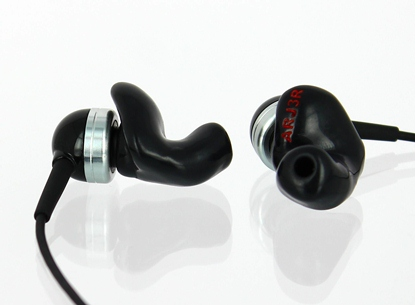 Music Earplug